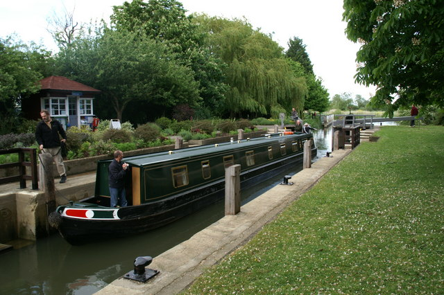 A narrowboat heading up the River Thames in Grafton Lock, West Oxfordshire